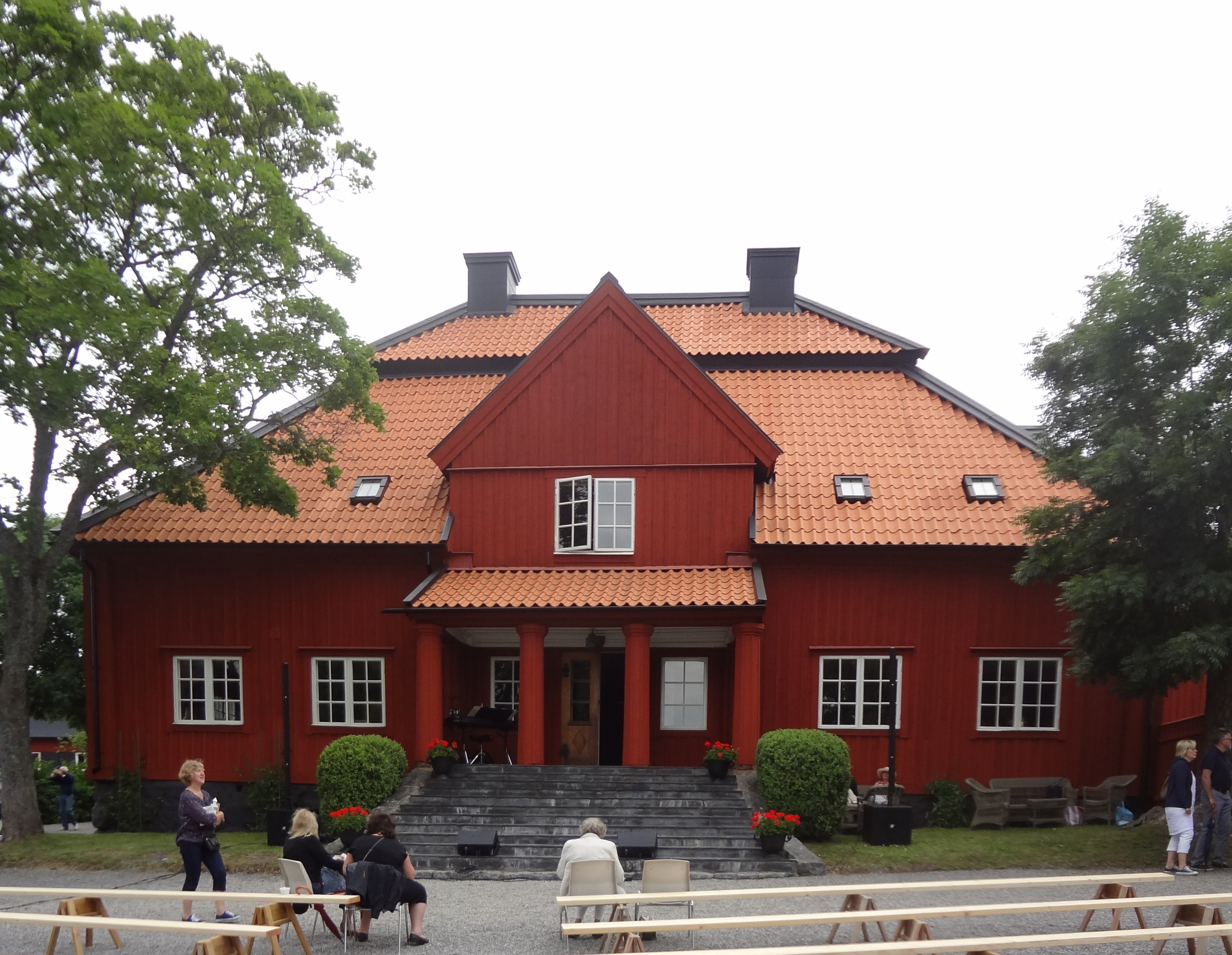 The house of Sundby Gård in Ornö, Stockholm. Unknown